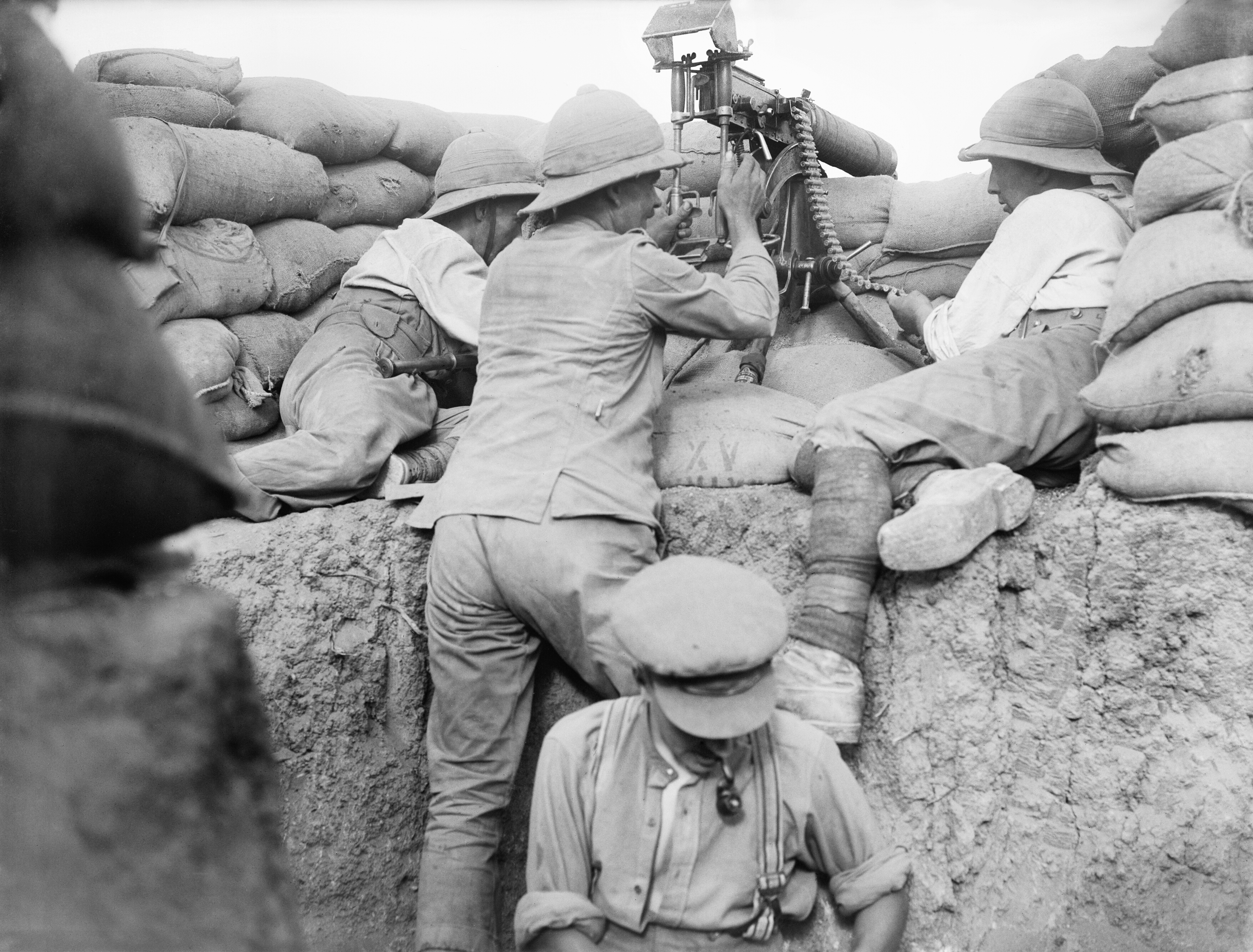 IWM caption : "A British soldier fires a machine gun with periscope attachment in the trenches at Gallipoli."